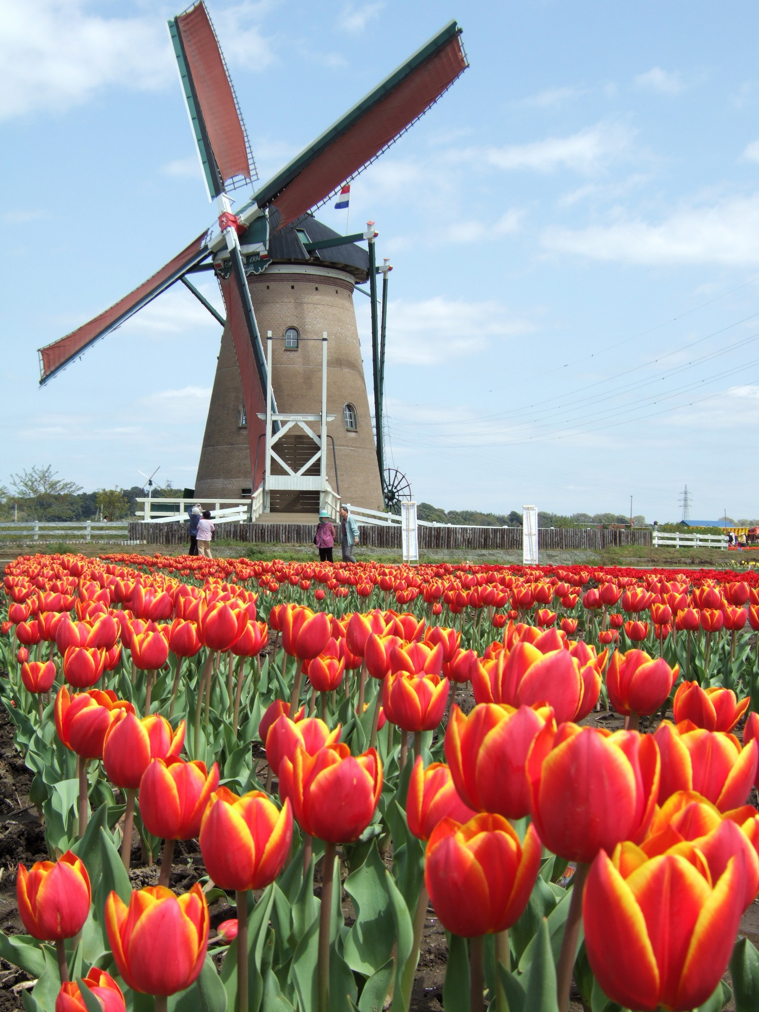 Dutch stone drainage mill (polder-mill with bucket wheel) in Sakura, Japan. It is a so-called ground-sailer type (sail tips reaching almost down to the ground), made in the Netherlands, shipped to and assembled in Japan in June 1994 by millwrights Verbij Hoogmade BV on the occasion of the 40th anniversary of Sakura City. The windmill is named "De Liefde" - "The Love" after the first Dutch sailing vessel that reached Japanese shores in 1600. Mill tower (16.5 m / 51 ft high) with 4 storeys (floors) of reinforced concrete; outside wall covered with half-stones (brick-tiles) to give a brick-built impression; cap luffed (rotated to face the wind) with tail-pole, endless chain, and wheel; diameter of sail-cross: 27.5 m / 90 ft. Ground and 1st floor accessible to the public. In springtime the mill is surrounded by thousands of flowering tulips - giving a real Dutch impression.